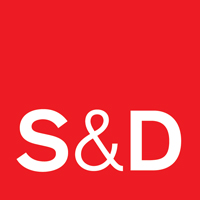 S&D logo